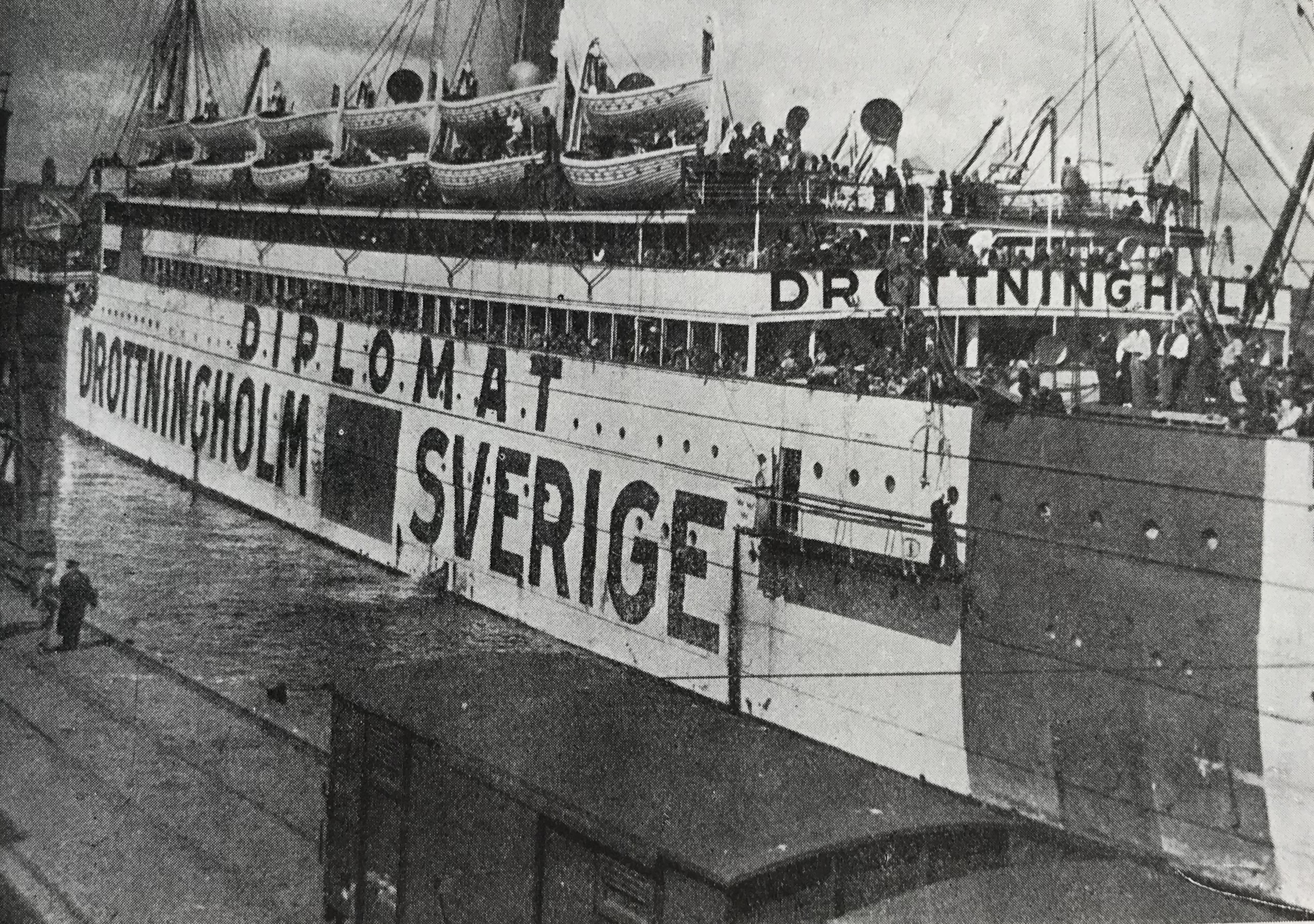 The diplomatic ship SS Drottningholm in Goteborg harbour 1943 or 1944.